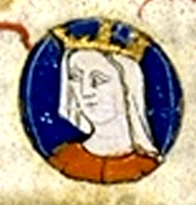 Isabella of France (1242-1271)